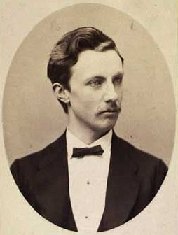 John Louis (Johan Ludvig) Emil Dreyer (1852-1926), Danish-Irish astronomer